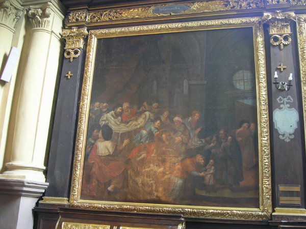 Poland, Sandomierz painting in Cathedral. It's my own photo. 07 May 2005. Drozdp 27 June 2005 19:39 (UTC)